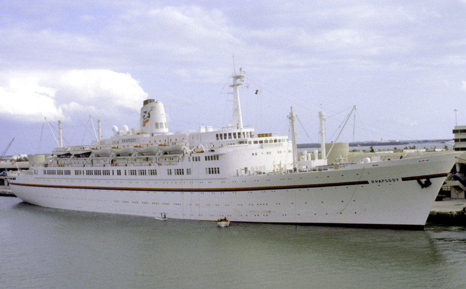 The cruise ship Rhapsody moored in Miami's harbor in March 1983.